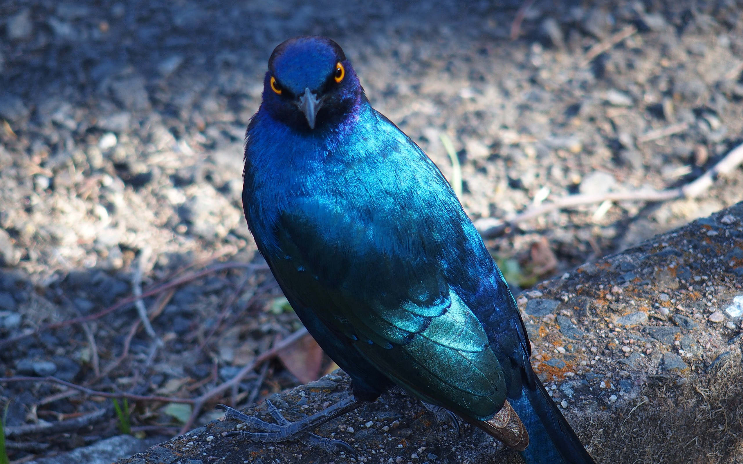 Cape starling gazing, bank of the Mahai River, near Mahai Rest camp, Royal Natal National Park, South Africa